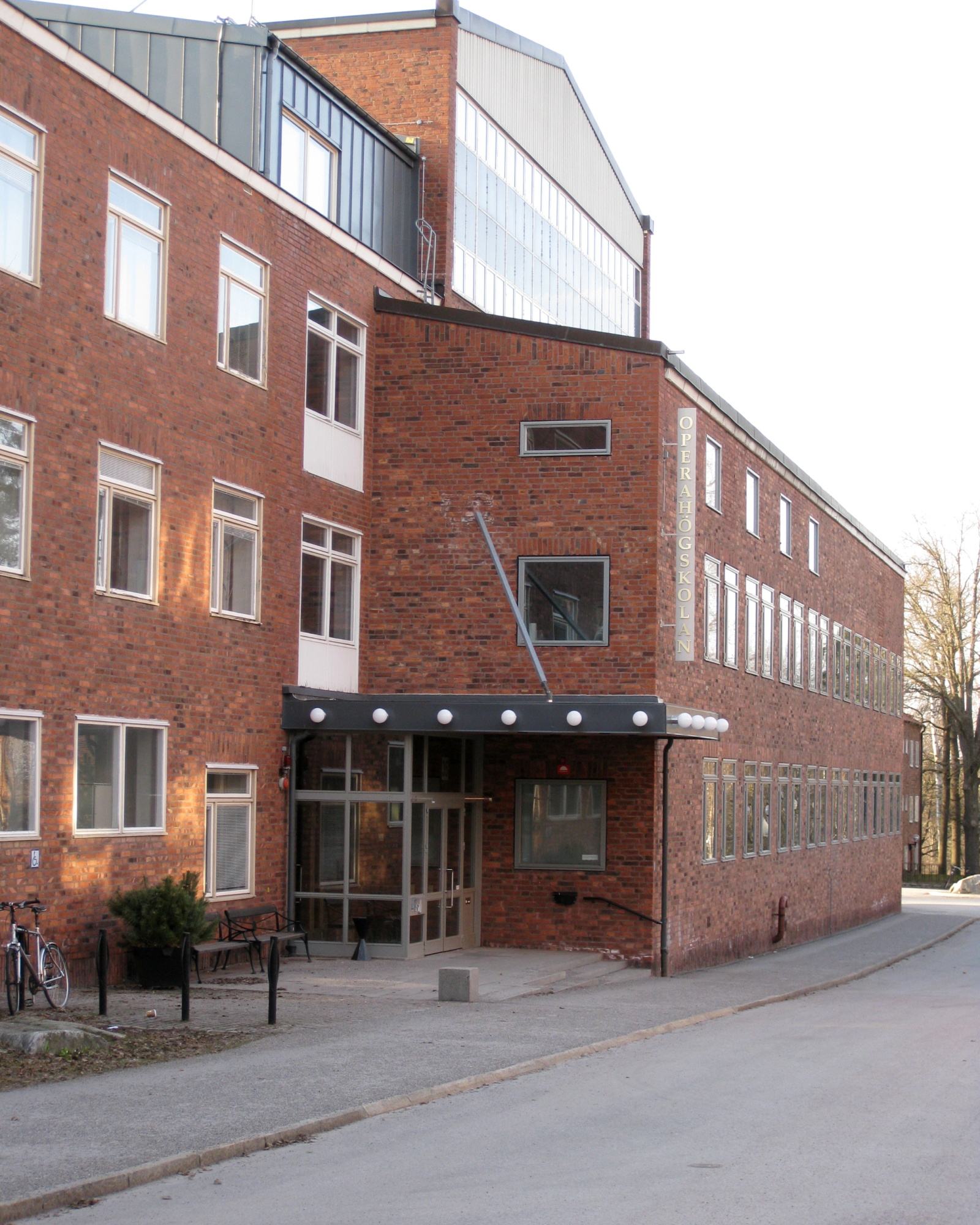 Stockholm University College of Opera, Östermalm, Stockholm, Sweden.